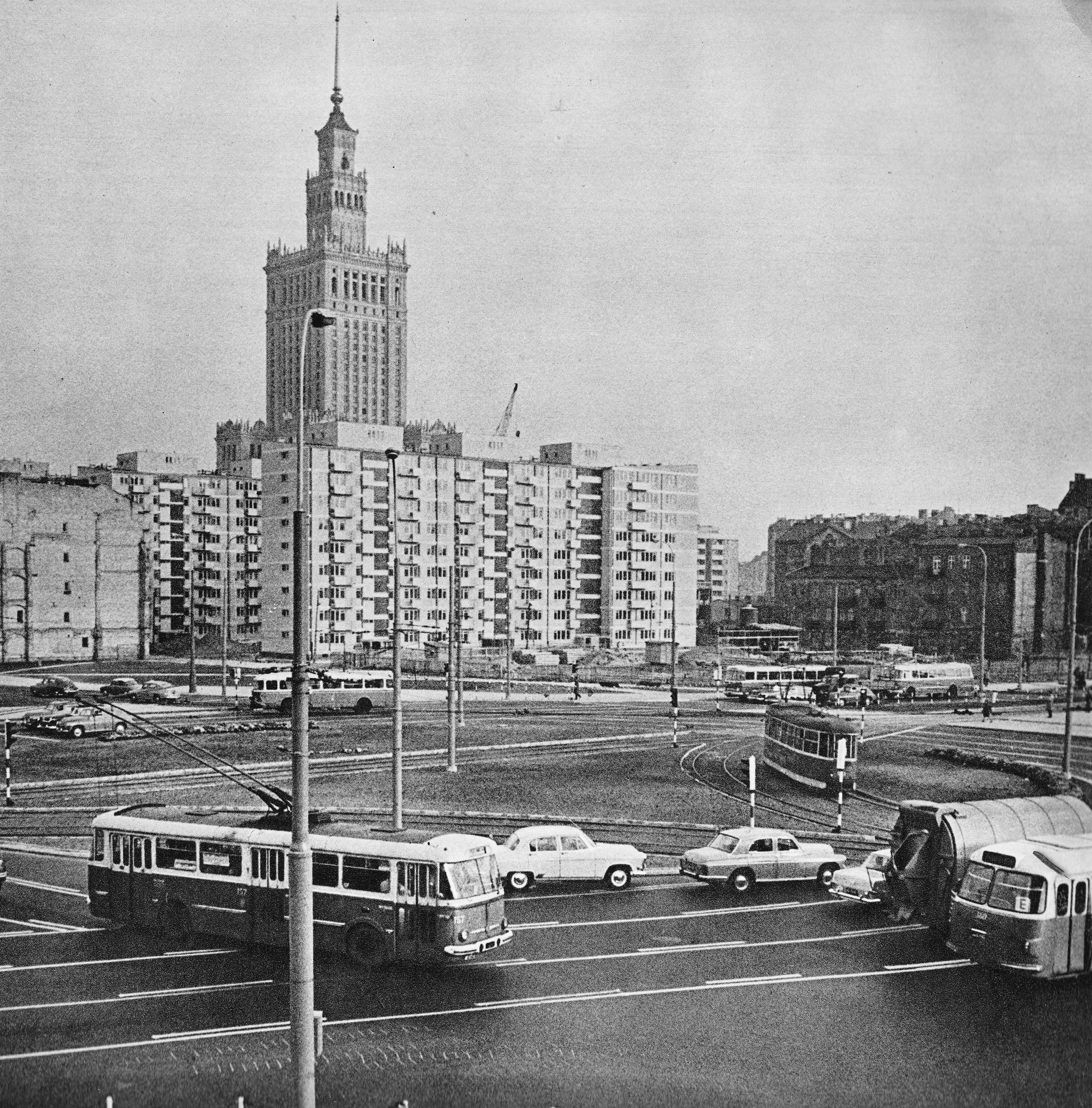 ONZ Roundabout, view to the south-east